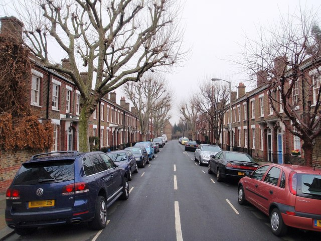 Odger Street, Battersea. See 1703779; this is the central of the five parallel roads south of Burns Road. The uniformity is striking. The Latchmere Estate Conservation Area was designated in 1974.